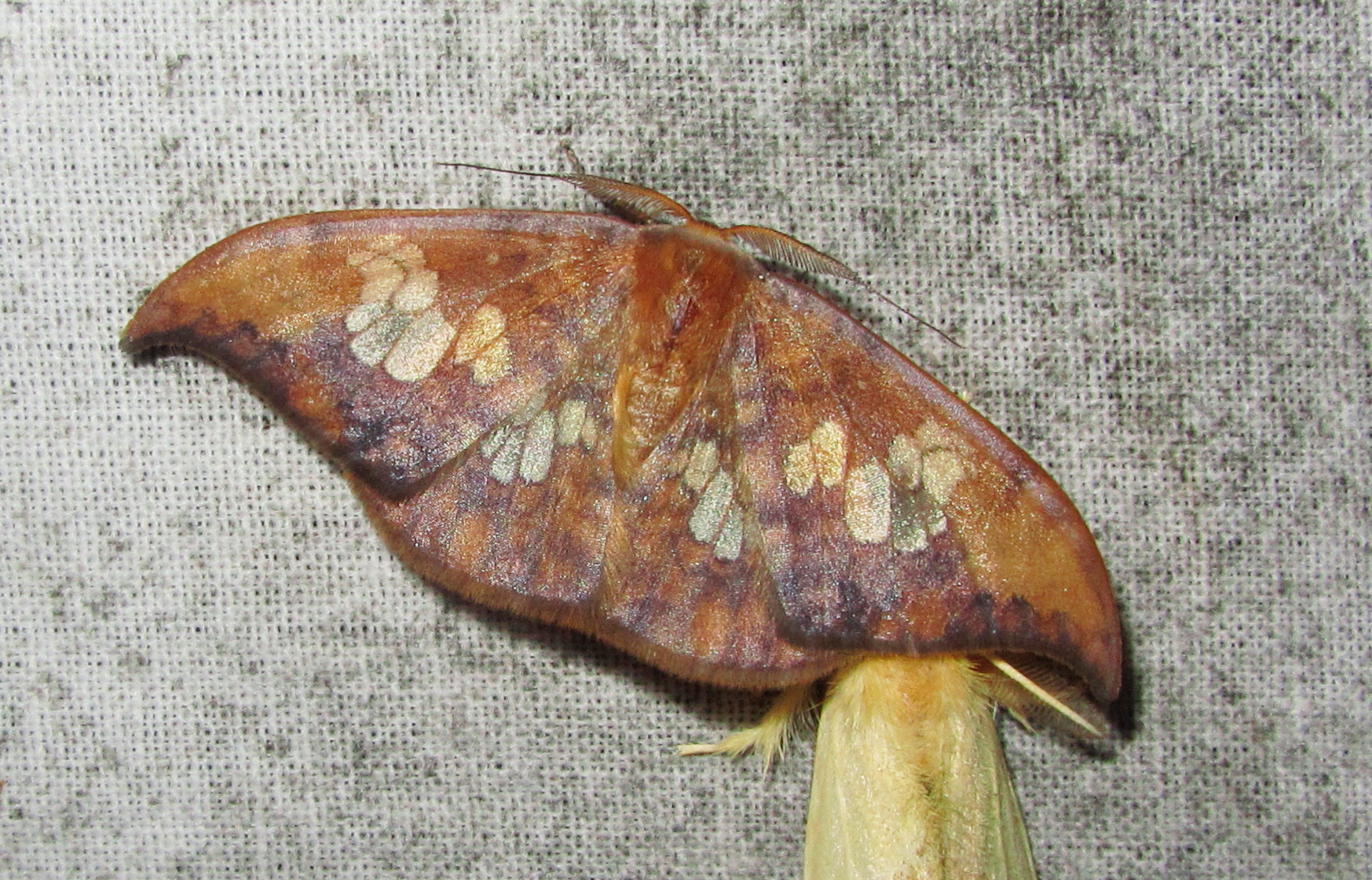 Bomphu, 1940m, Eaglenest, Arunachal Pradesh, India, 21st April 2012 Agnidra c/w specularia